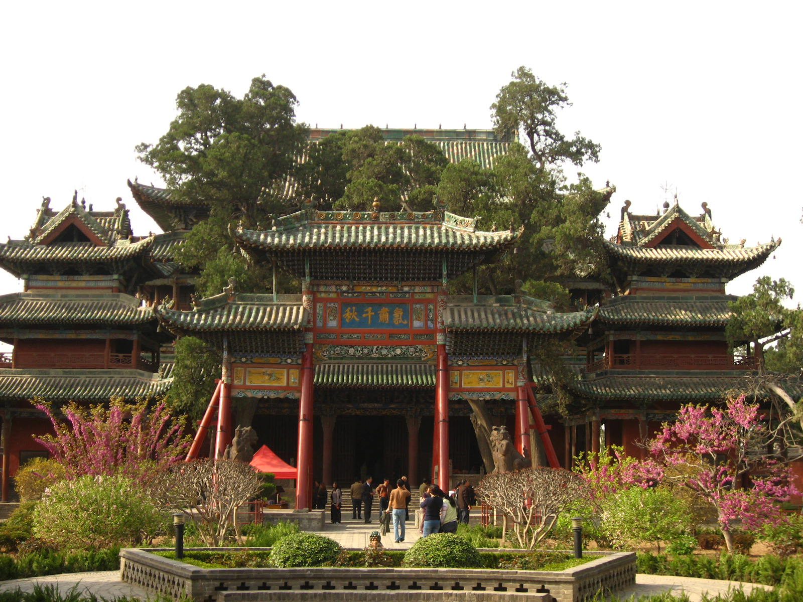 關帝廟